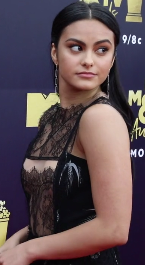 Camila Mendes at 2018 MTV Movie & TV Awards Red Carpet